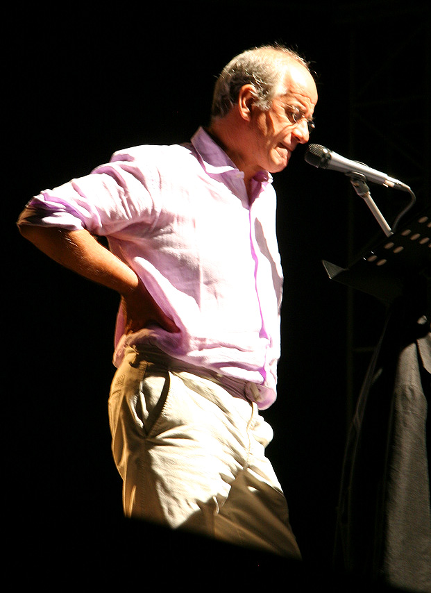 Italien actor and theatre director Toni Servillo